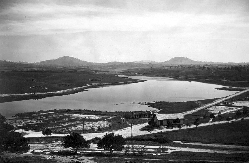 Xuan Huong Lake, Da Lat, 1920s